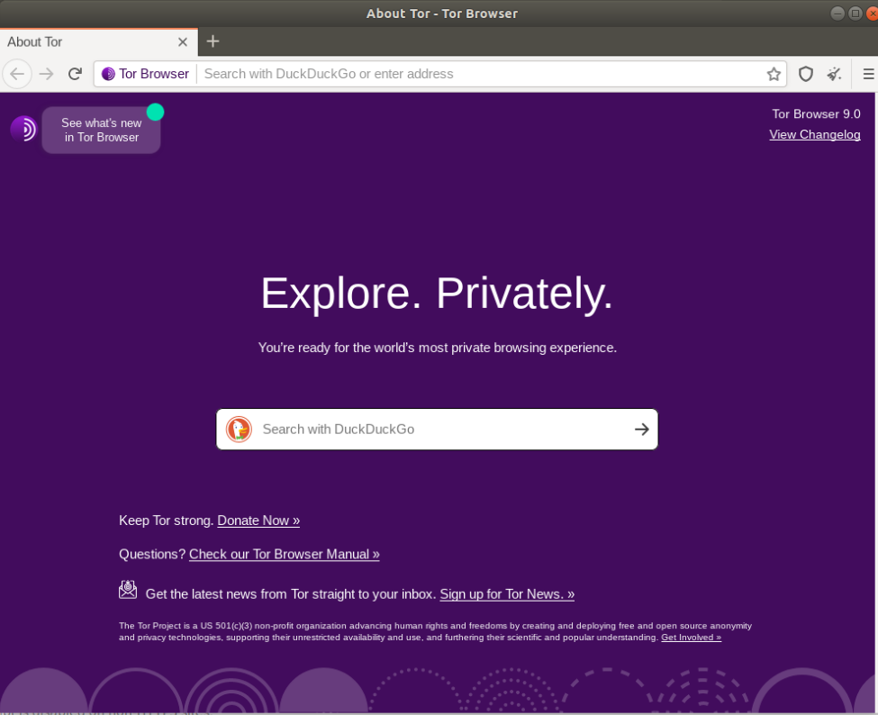 Tor Browser 9.0 on Ubuntu